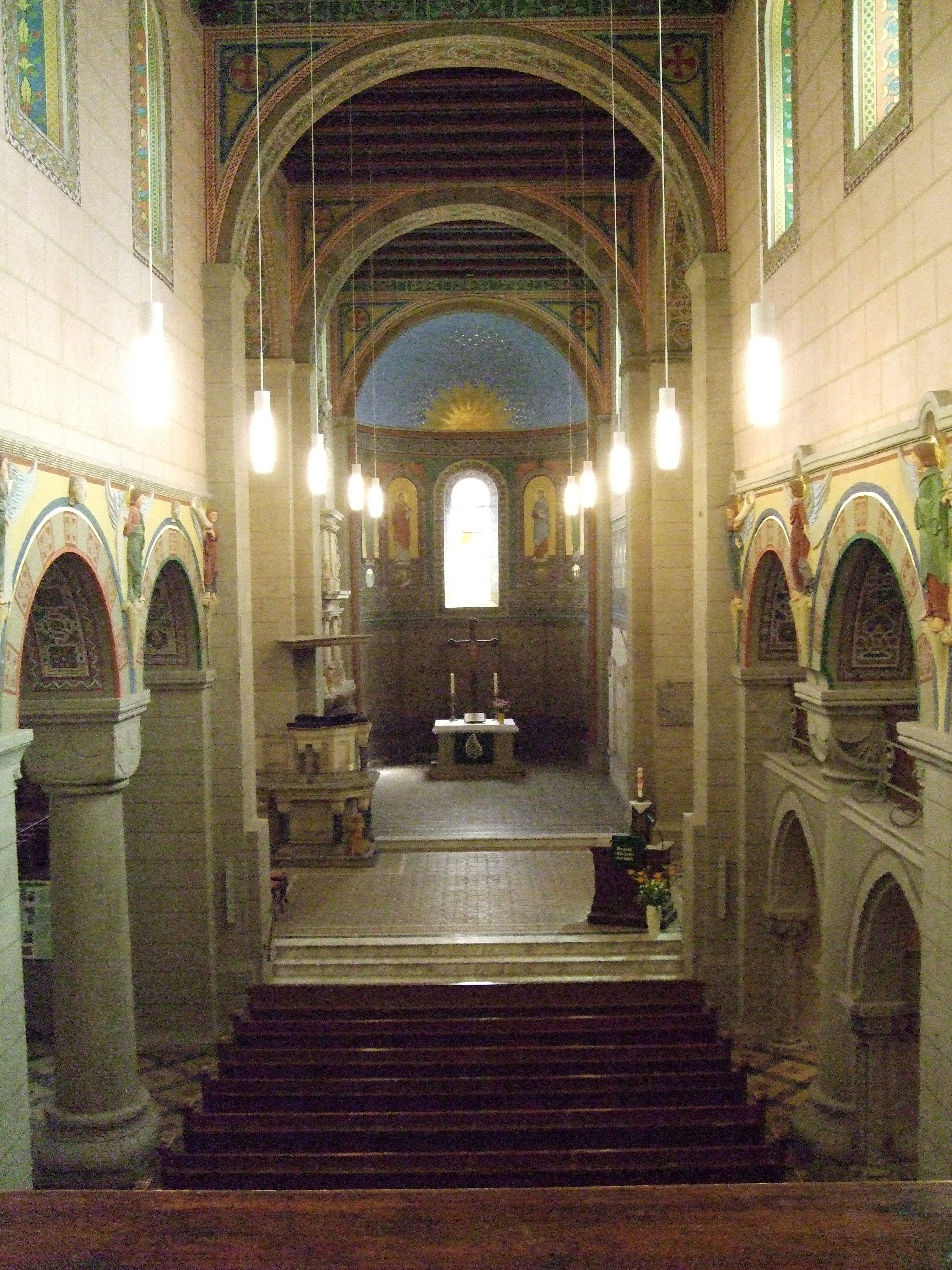 Monastic church Hecklingen, Sachsen-Anhalt, Germany. Romance. Central nave, view eastward